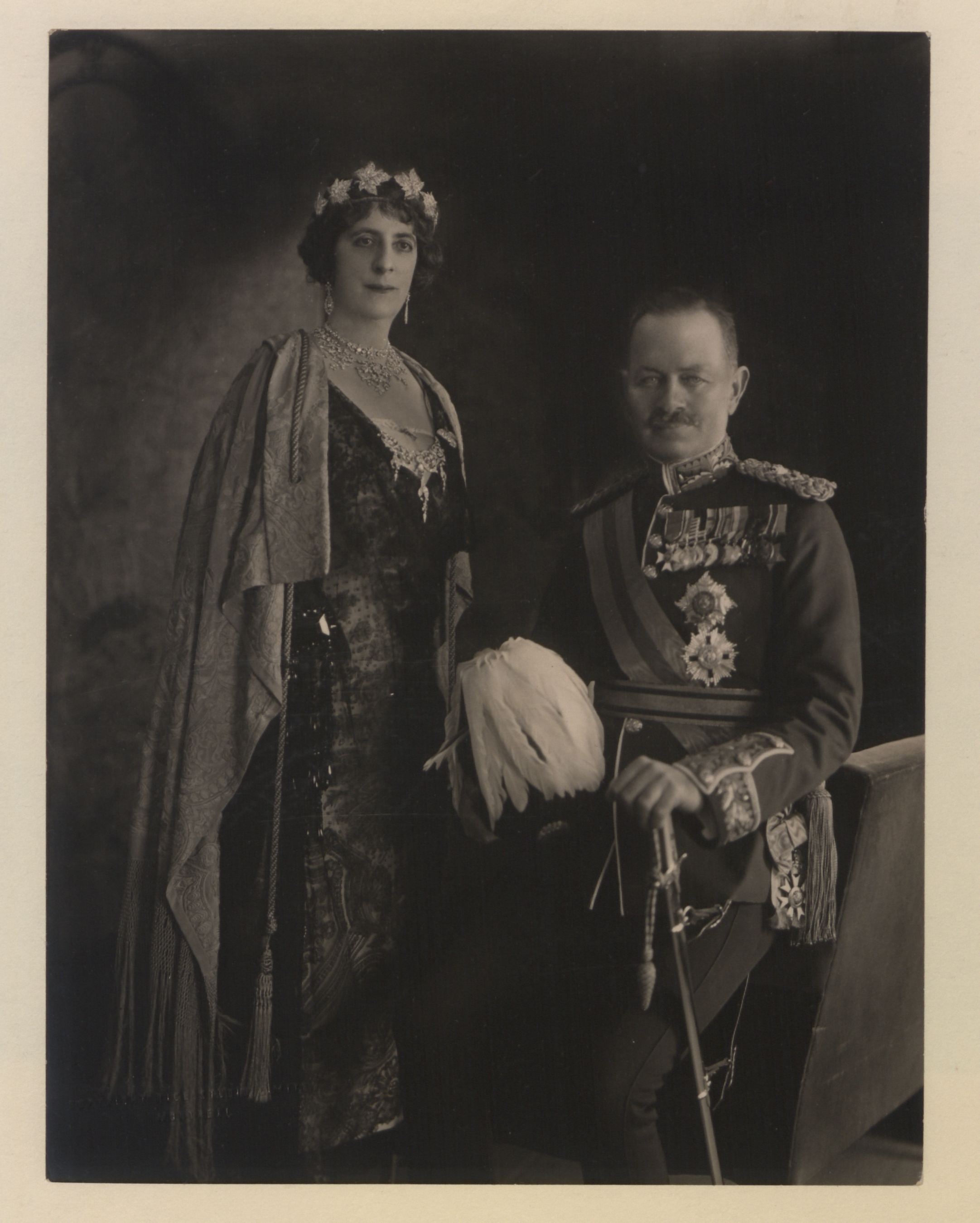 Lord and Lady Byng.